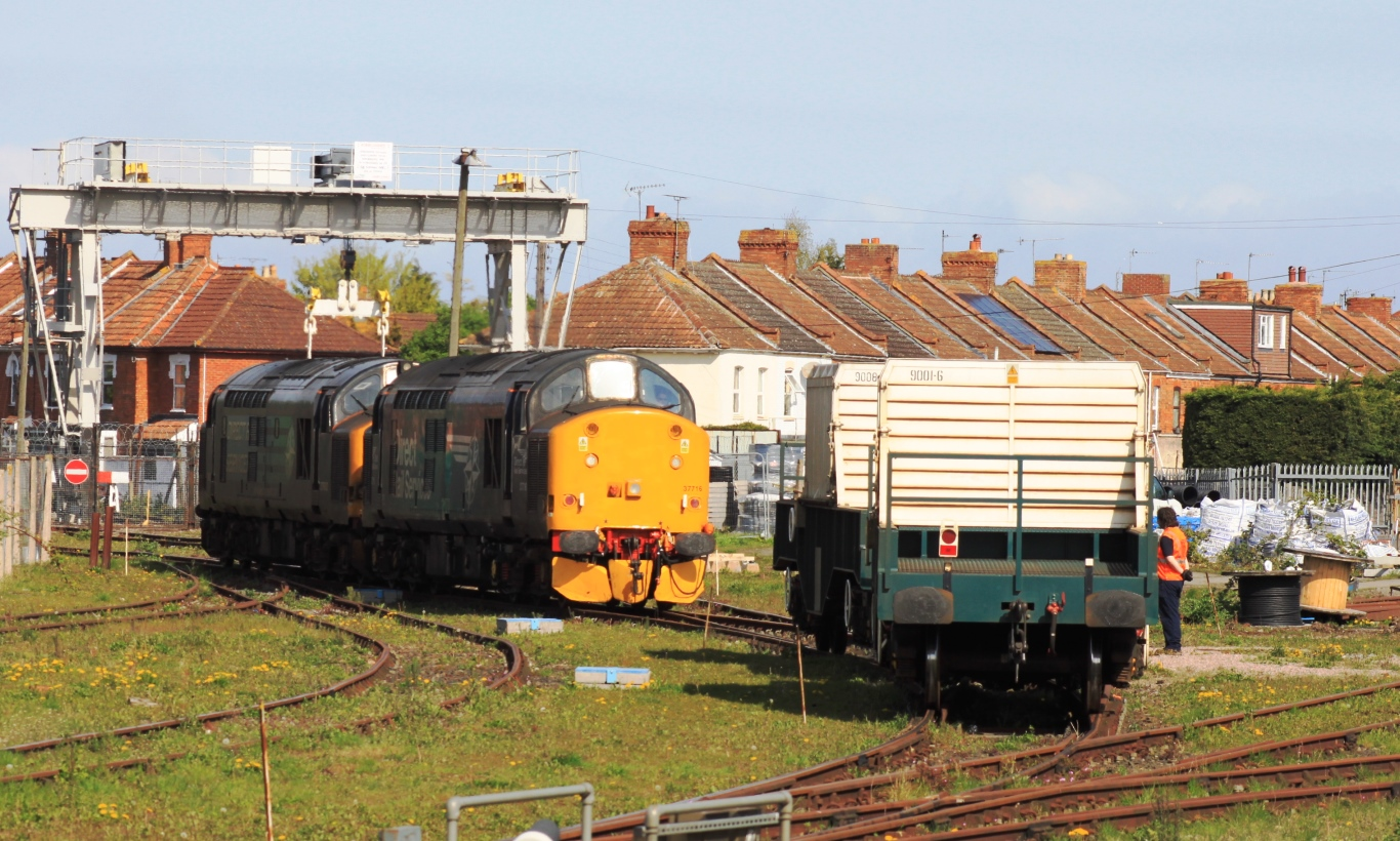 37716 and 37602 couple up to two nuclear flask wagons at Bridgwater.